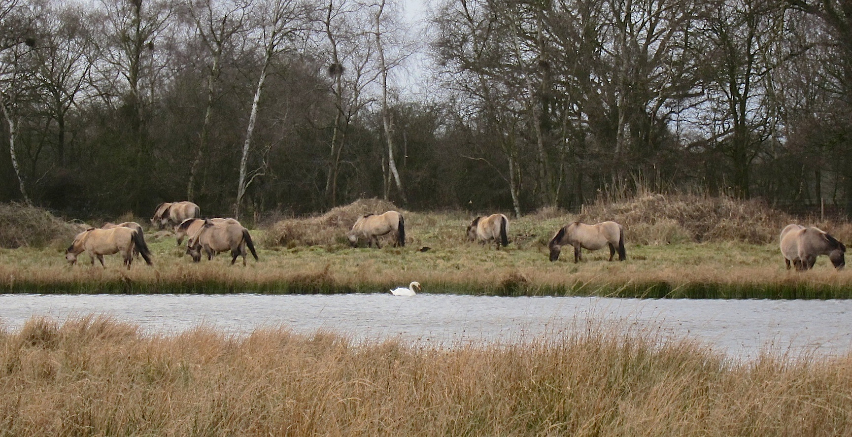 Introduced Polish konik ponies grazing at Redgrave Fen, Norfolk/Suffolk, England.